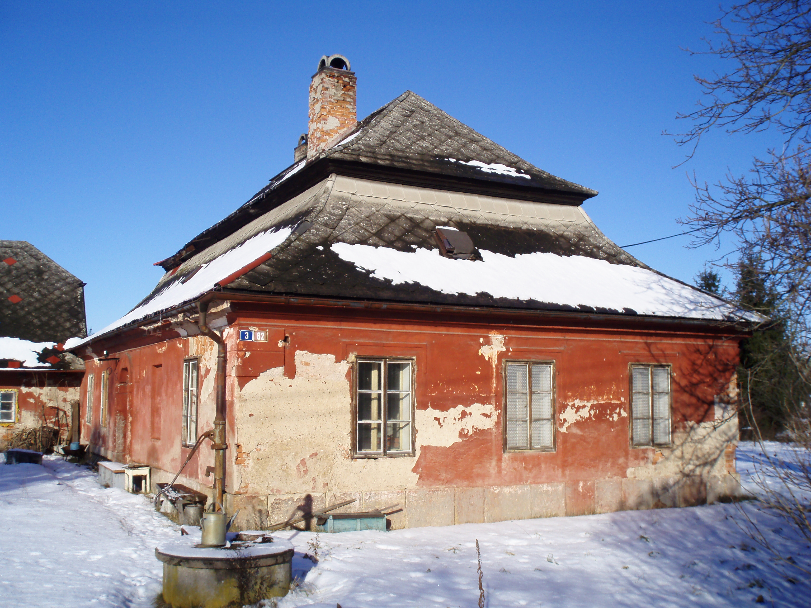 House called Červený Dvůr in Hradec Králové (Czechia)